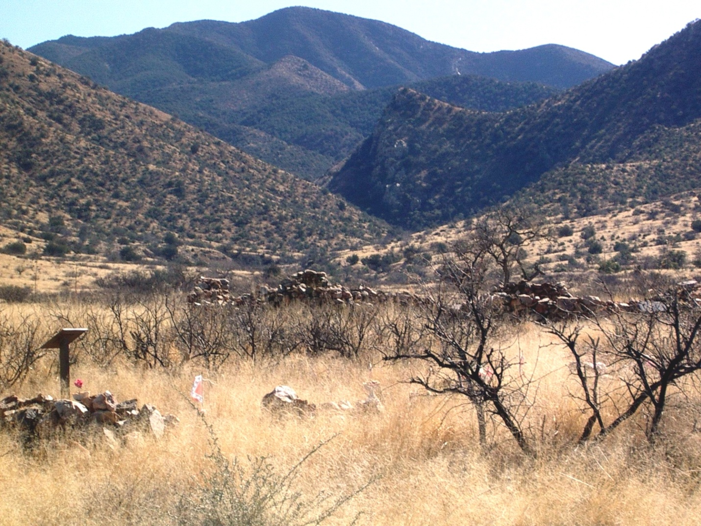 Dragoon Springs Stage Station ruins and Cemetery looking south towards the canyon and the location of Dragoon Springs one mile from the station. This is now a National Forest Service protected historic site.